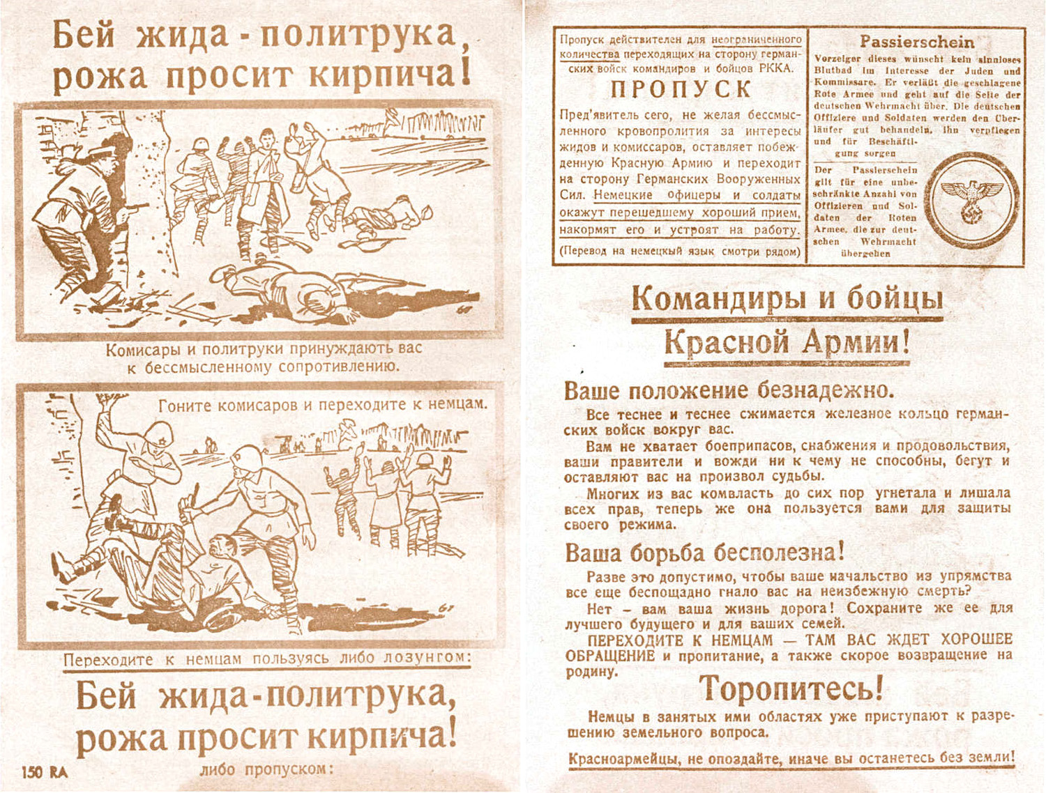 Flyer (pamphlet): "Kill the Jew - political commissar, the mug asks for a brick!"